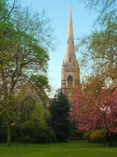 philipg, Panoramia